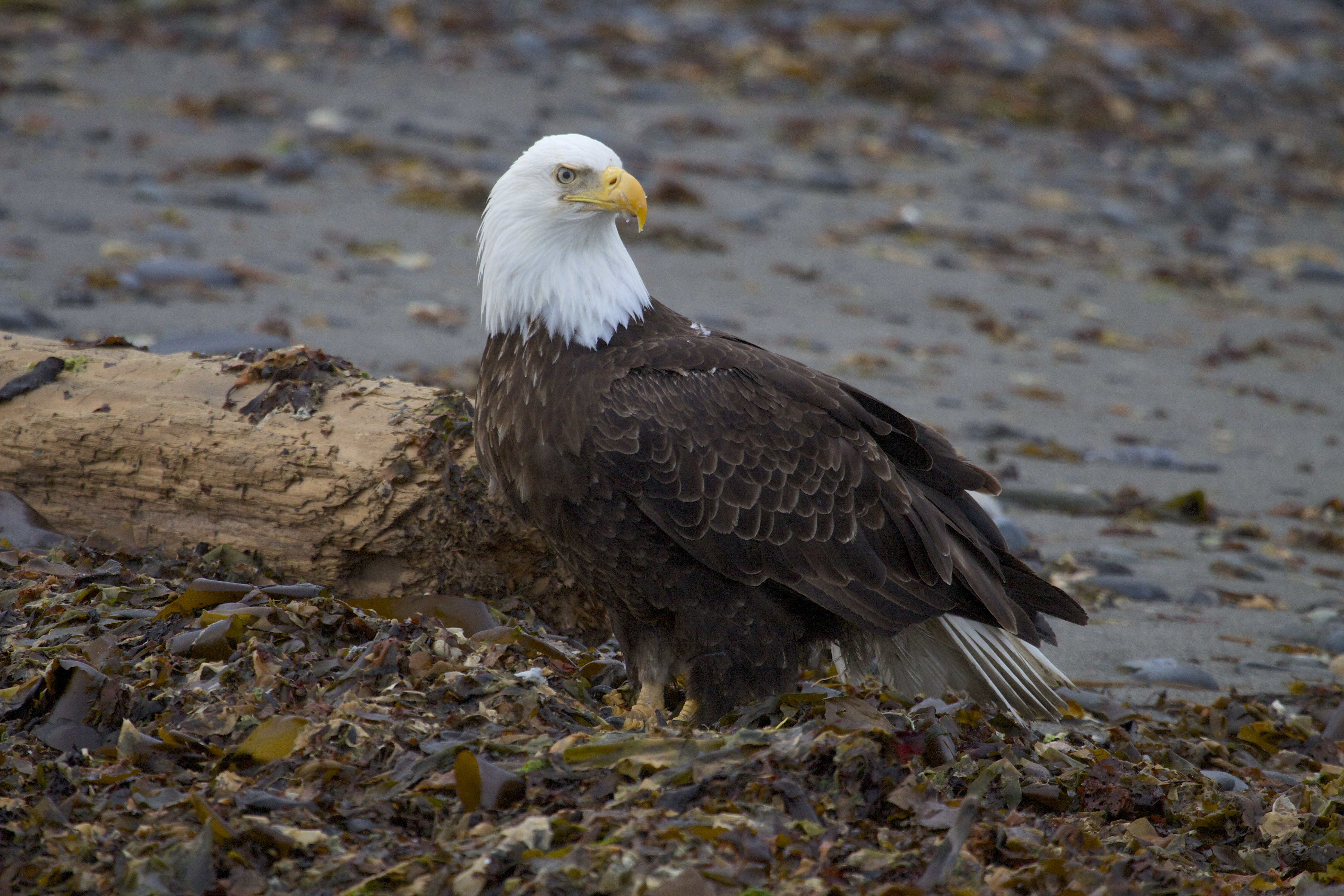 Prolific breeders in Alaska, it is hard to imagine how DDT decimated their numbers in the '60's. This bird had just finished consuming a herring it had taken from a bait ball off of Homer, Alaska...